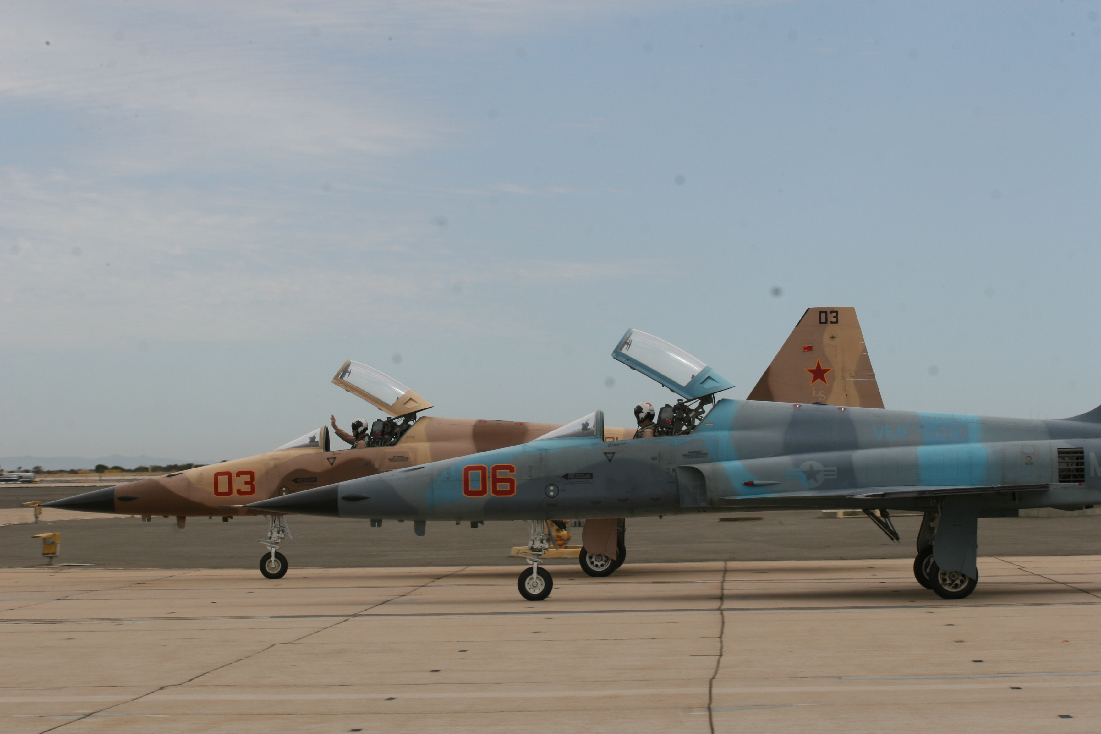 PIlots with Marine Fighter Training Squadron 401 taxi their F-5's after a training flight with Marine Fighter Attack Squadron 232, aboard the air station, Aug. 4. The squadron known as "Snipers" are a reserve squadron that consistently trains with active squadrons in the region. (Official U.S. Marine Corps photo by Cpl. Christopher O'Quin)(Released)